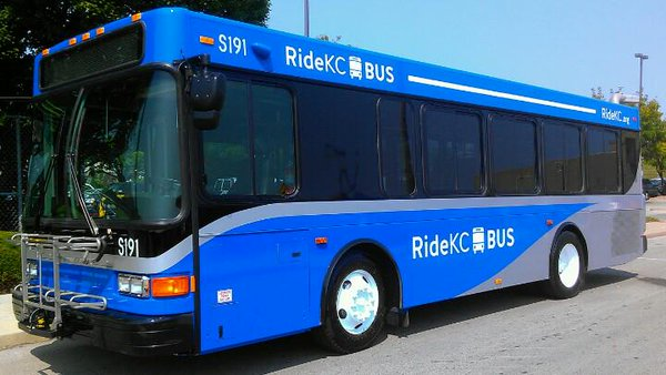 RideKC Bus Under the new RideKC Plan for the Metro